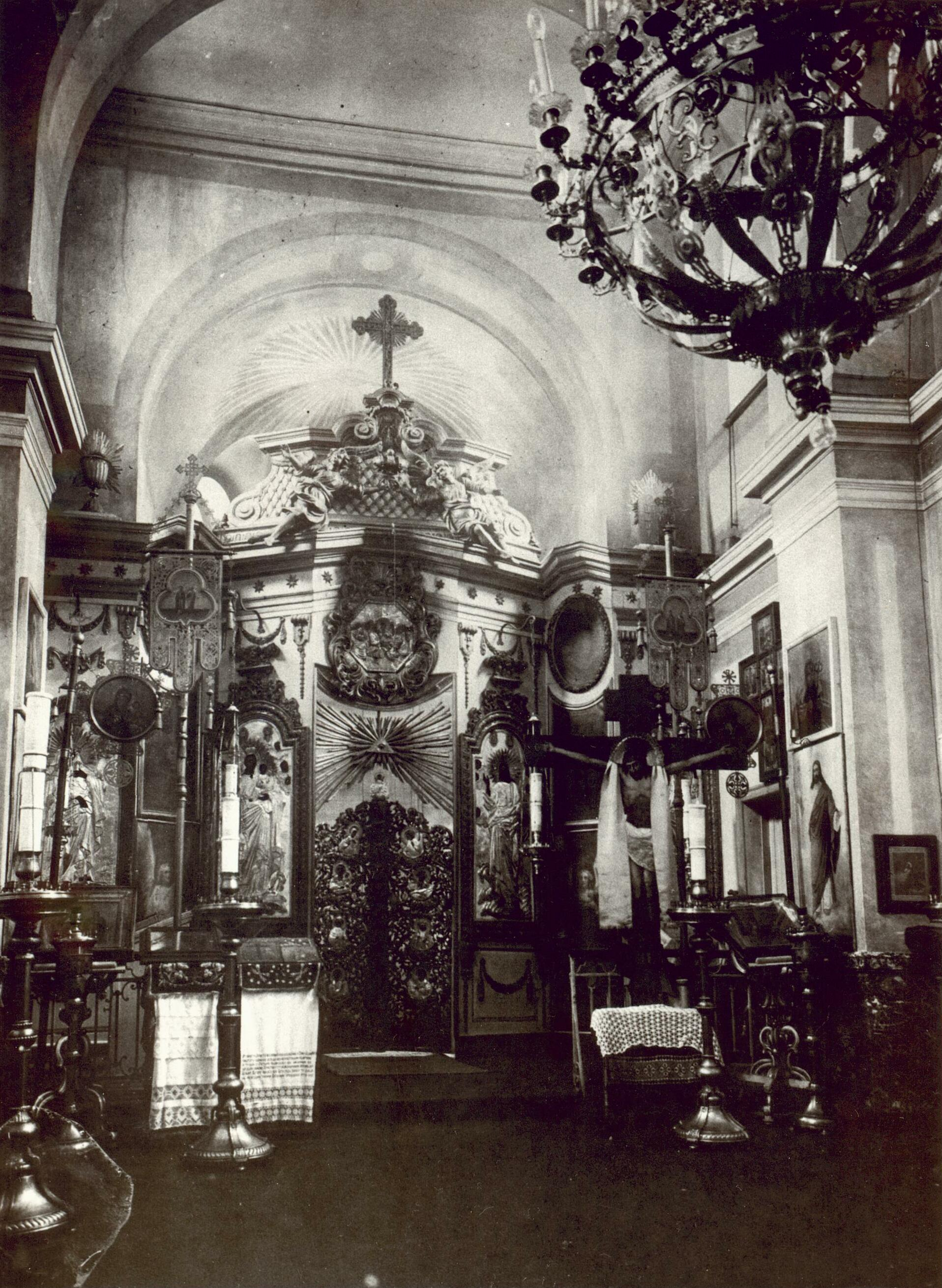 Tsarskoye Selo (Russia)